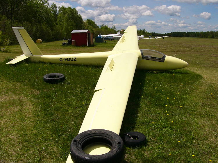 I took this photo of a Schweizer SGS 1-34 (C-FDUZ) at Kars/Rideau Valley Air Park on 24 May 08.